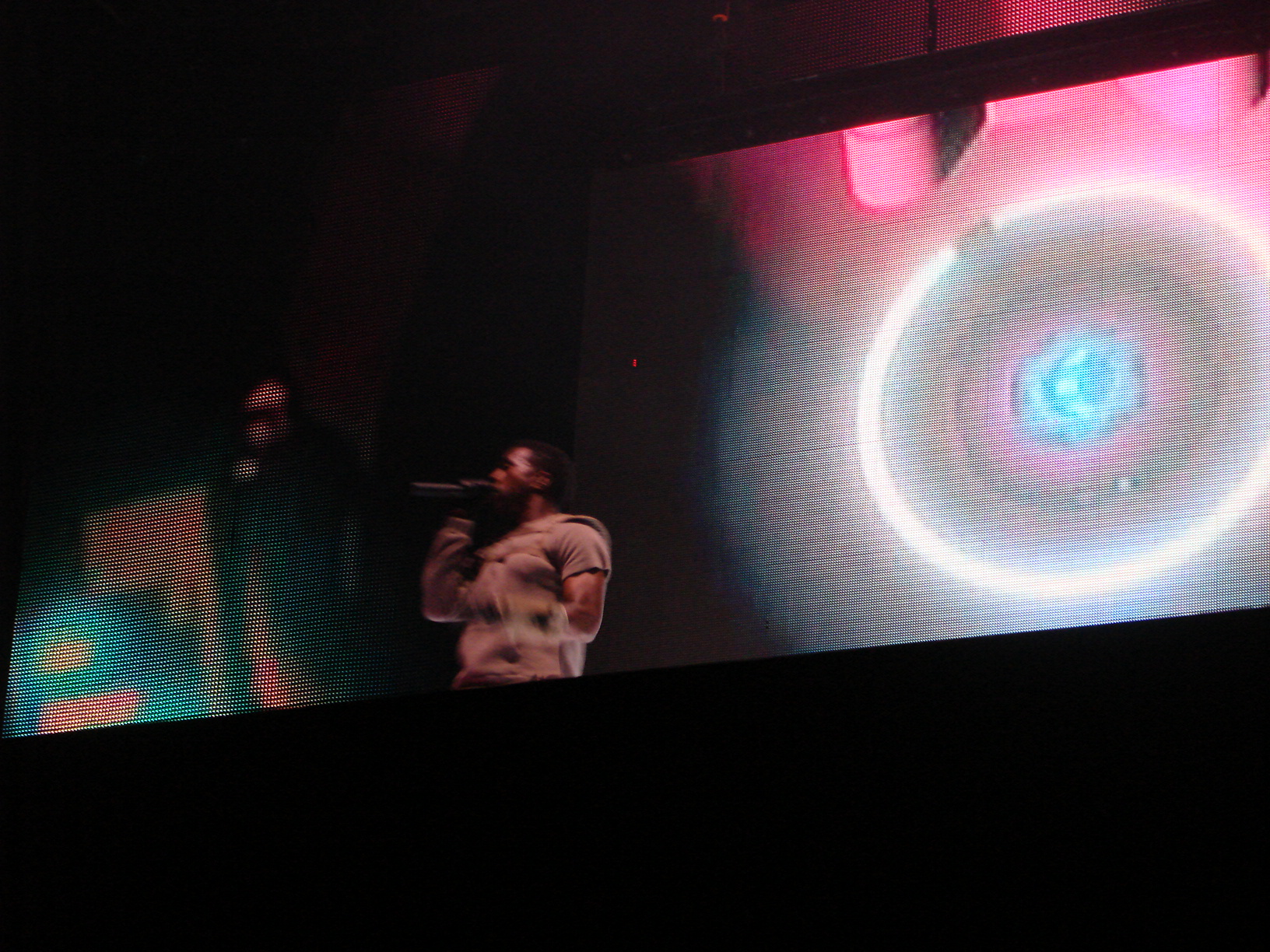 Kanye West performing "Good Morning" for the Tim Festival at Marina da Glória in Rio de Janeiro, Brazil on October 24, 2008 during the Glow in the Dark Tour.